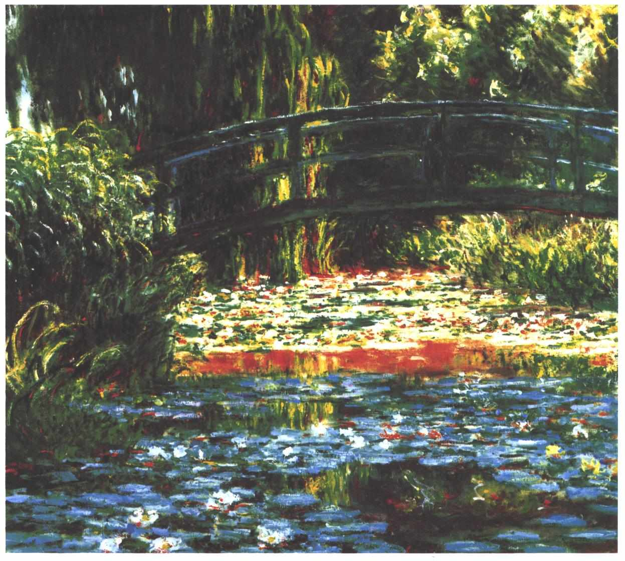 Japanese bridge in Giverny